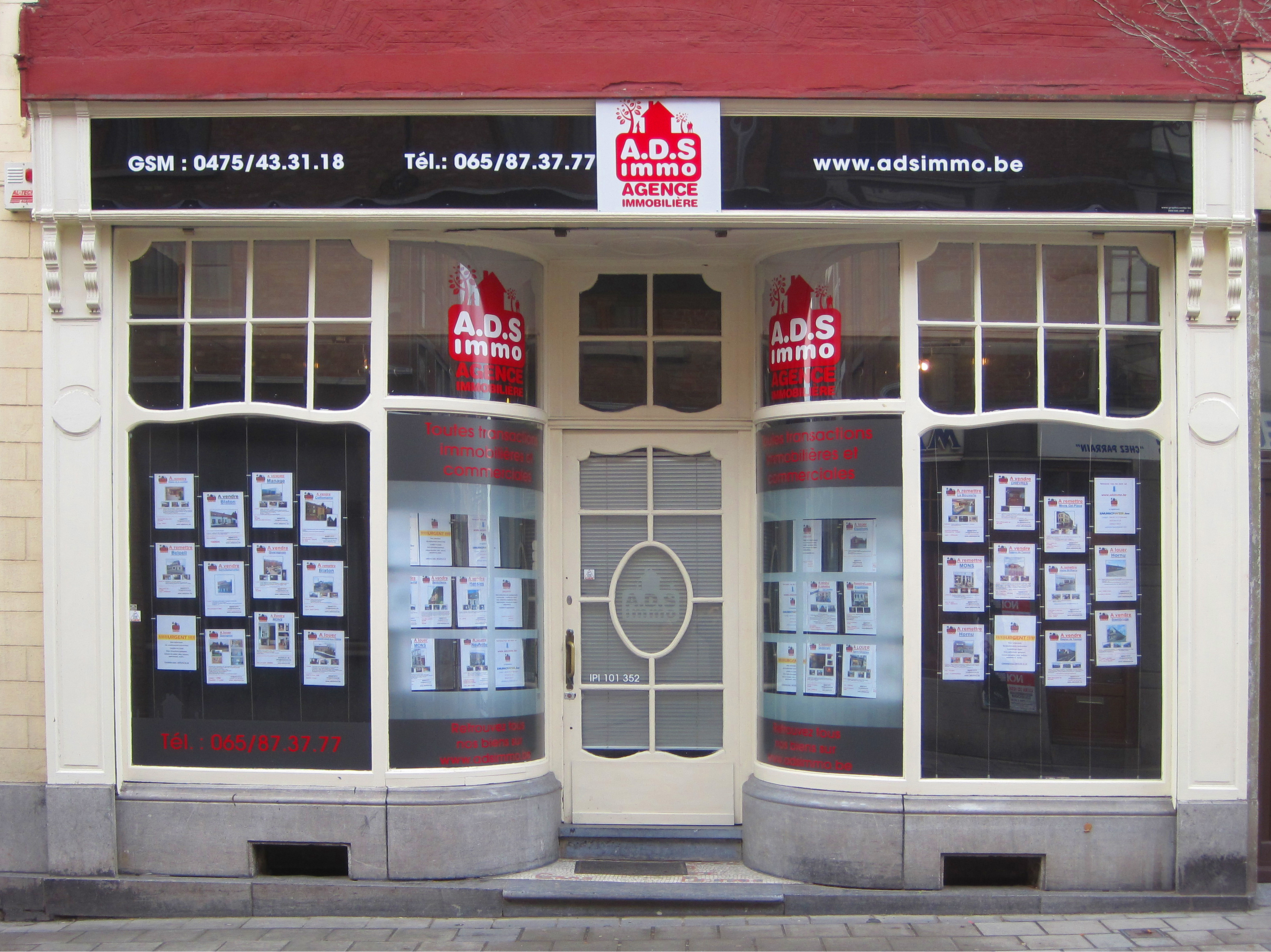 Mons (Hainaut) (Belgique), rue des Sœurs Chartriers, 4A. – Front and shop windows of the estate agency « A.D.S. immo ».